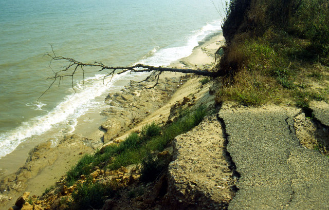 Covehithe Cliffs. A dramatic example of the erosion that affects much of the East Anglian coast. The lane from Covehithe village ends abruptly at the cliff edge. The road used to run to a coast guard station (1891 map) but all has vanished.